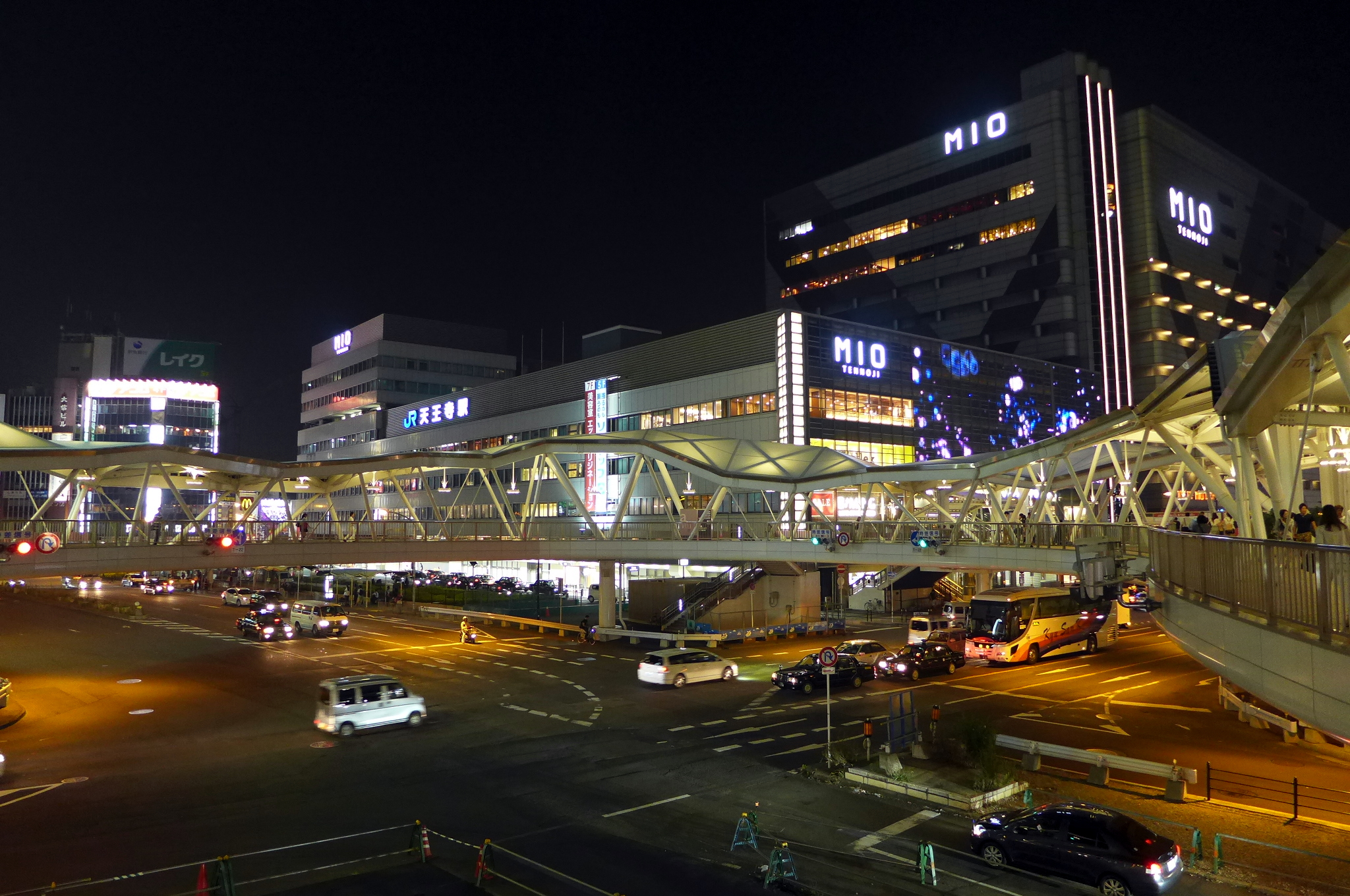 Tennoji Station Night View